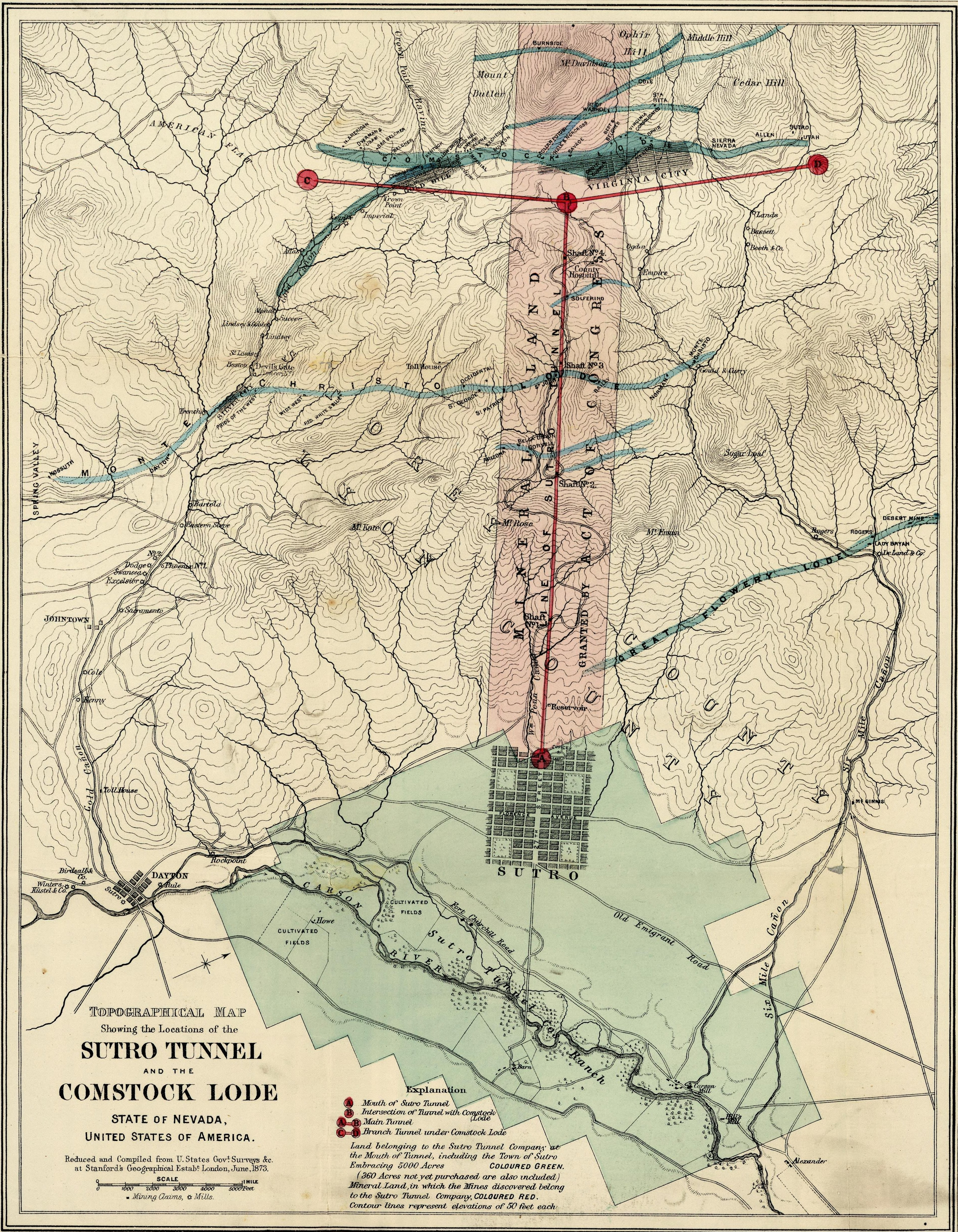 Author Stanford's Geographical Establishment Date 1873 Short Title Sutro Tunnel And The Comstock Lode State Of Nevada Publisher Stanford's Geographical Establishment Publisher Location London Type Separate Map Obj Height cm 57 Obj Width cm 55 Scale 1 33,240 Note Color map measuring 42x32.5, with two profiles on one sheet. Relief shown by contour lines. State/Province Nevada County Storey County Lyon Region Comstock Lode Region Sutro Tunnel Subject Mining Full Title Topographical Map Showing the Locations of the Sutro Tunnel And The Comstock Lode State Of Nevada, United States Of America. Reduced and Compiled from U. States Govt. Surveys &c. at Stanford's Geographical Estabt. London, June, 1873. (with) Profile Of Sutro Tunnel ... Lithographed at Stanford's Geogl. Estabt., London. (with) Longitudinal Section Of The Comstock Lode, Shewing The Workings And Their Relative Depths, To The Sutro Tunnel. List No 5303.001 Series No 1 Publication Author Stanford's Geographical Establishment Pub Date 1873 Pub Title Topographical Map Showing the Locations of the Sutro Tunnel And The Comstock Lode State Of Nevada, United States Of America. Reduced and Compiled from U. States Govt. Surveys &c. at Stanford's Geographical Estabt. London, June, 1873. (with) Profile Of Sutro Tunnel ... Lithographed at Stanford's Geogl. Estabt., London. (with) Longitudinal Section Of The Comstock Lode, Shewing The Workings And Their Relative Depths, To The Sutro Tunnel. Pub Note One map measuring 42x32.5, with two profiles on one sheet. Pub List No 5303.000 Pub Type Separate Map Pub Height cm 57 Pub Width cm 55 Image No 5303001 Download 1 Full Image Download in MrSID Format Download 2 GeoViewer for JP2 and SID files Authors Stanford's Geographical Establishment